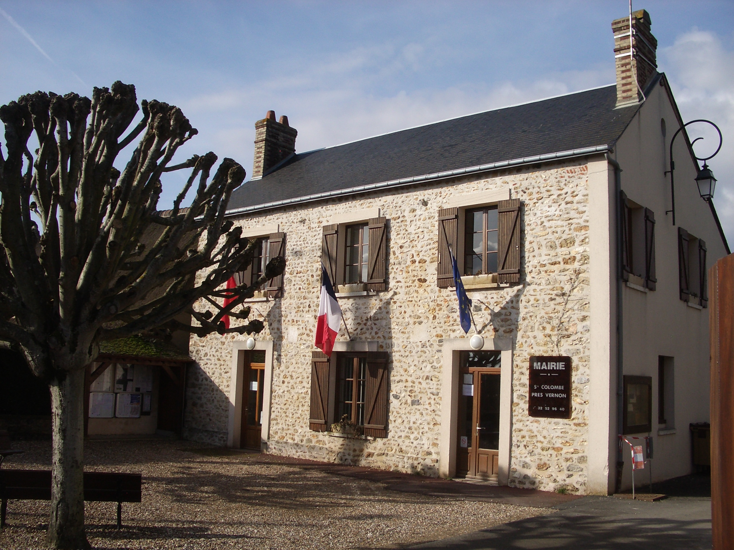 Sainte Colombes près Vernon city hall